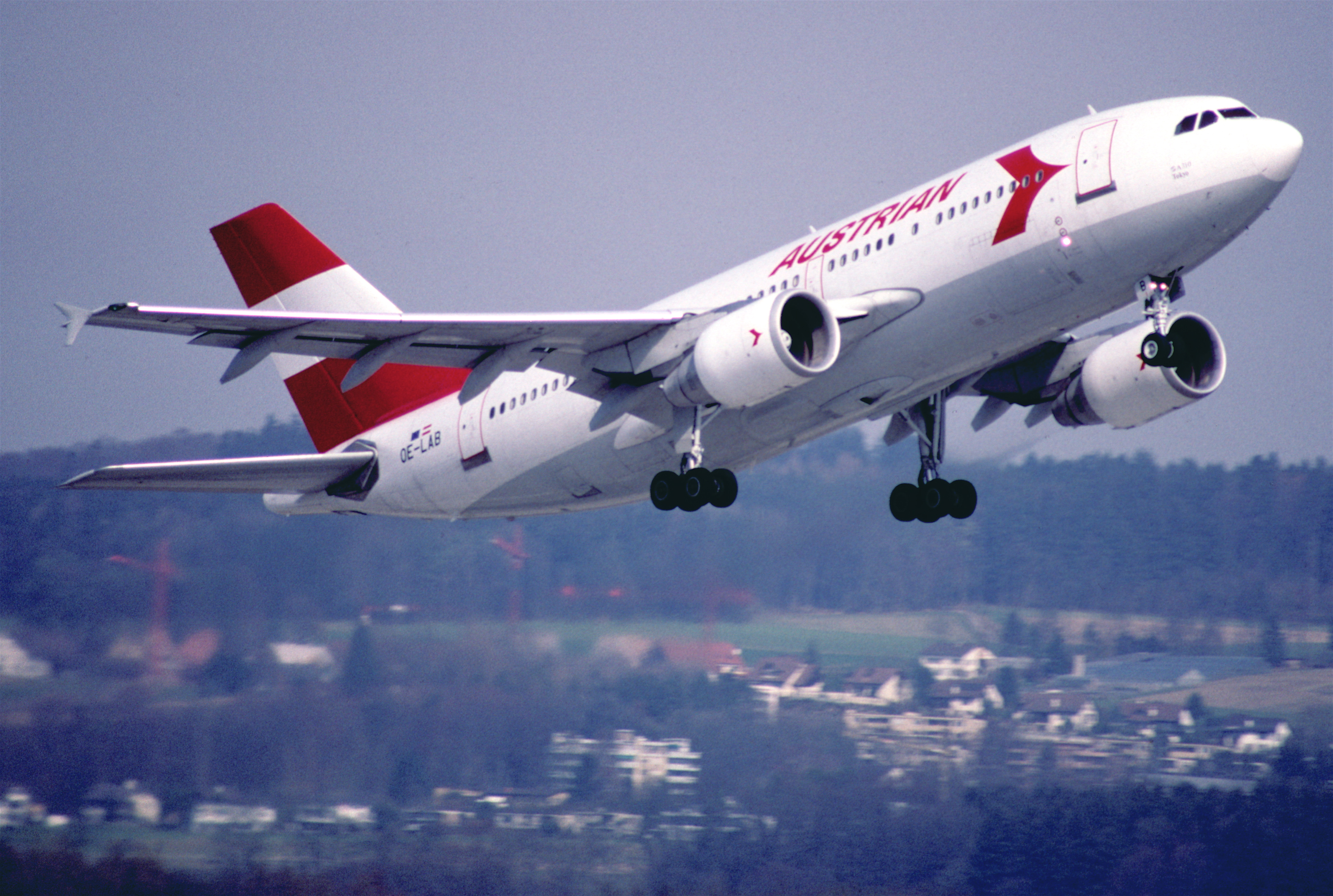 53ch - Austrian Airlines Airbus A310-324; OE-LAB@ZRH;14.03.1999